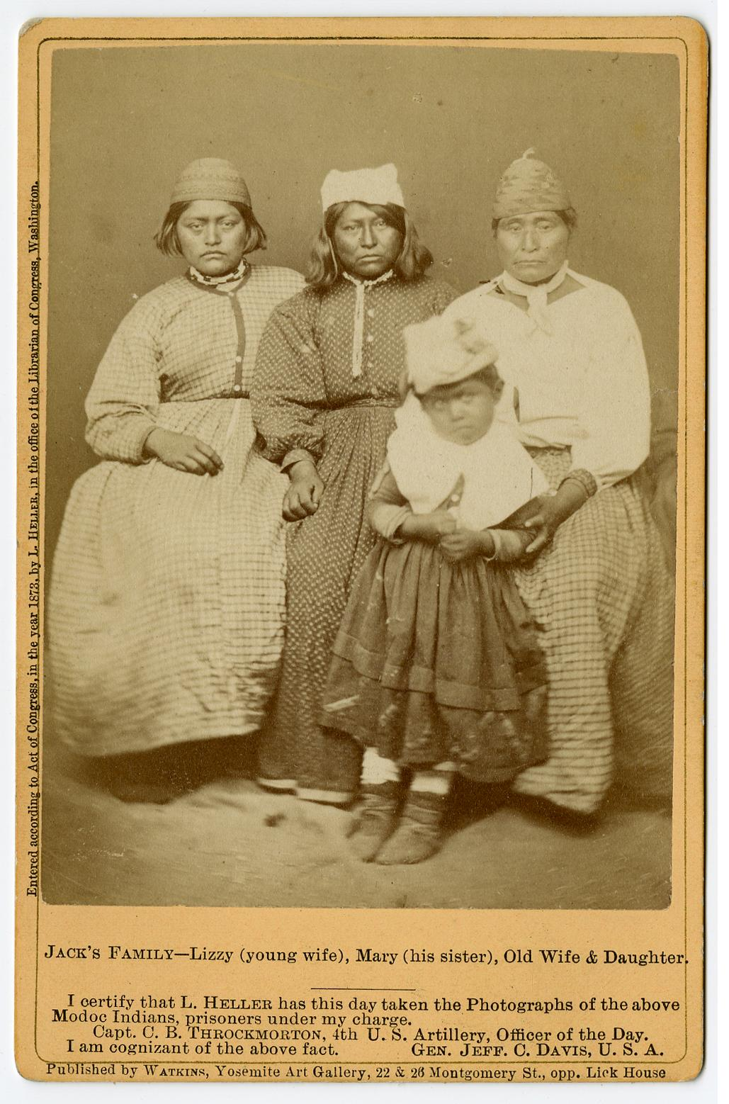 Repository: California Historical Society Collection: Photographic portraits of Modoc Indians of the Modoc War Photographer: Heller, Louis Herman Date: 1873 General note: Printed on mounts: I certify that L. Heller has this day taken the photographs of the above Modoc Indian prisoner under my charge. Capt. C.B. Throckmorton, 4th U.S. Artillery, Officer of the Day. I am cognizant of the above fact. Gen. Jeff. C. Davis, U.S.A. General note: Photos were published by Carleton E. Watkins. Watkins' Yosemite Art Gallery advertisement on verso. Format: Carte de visite Call Number: PC 006 Digital object ID: PC 006_03.jpg Preferred citation: Jack’s family—Lizzy (young wife), Mary (his sister), Old Wife & daughter, Photographic portraits of Modoc Indians of the Modoc War, PC 006, courtesy, California Historical Society, PC 006_03.jpg